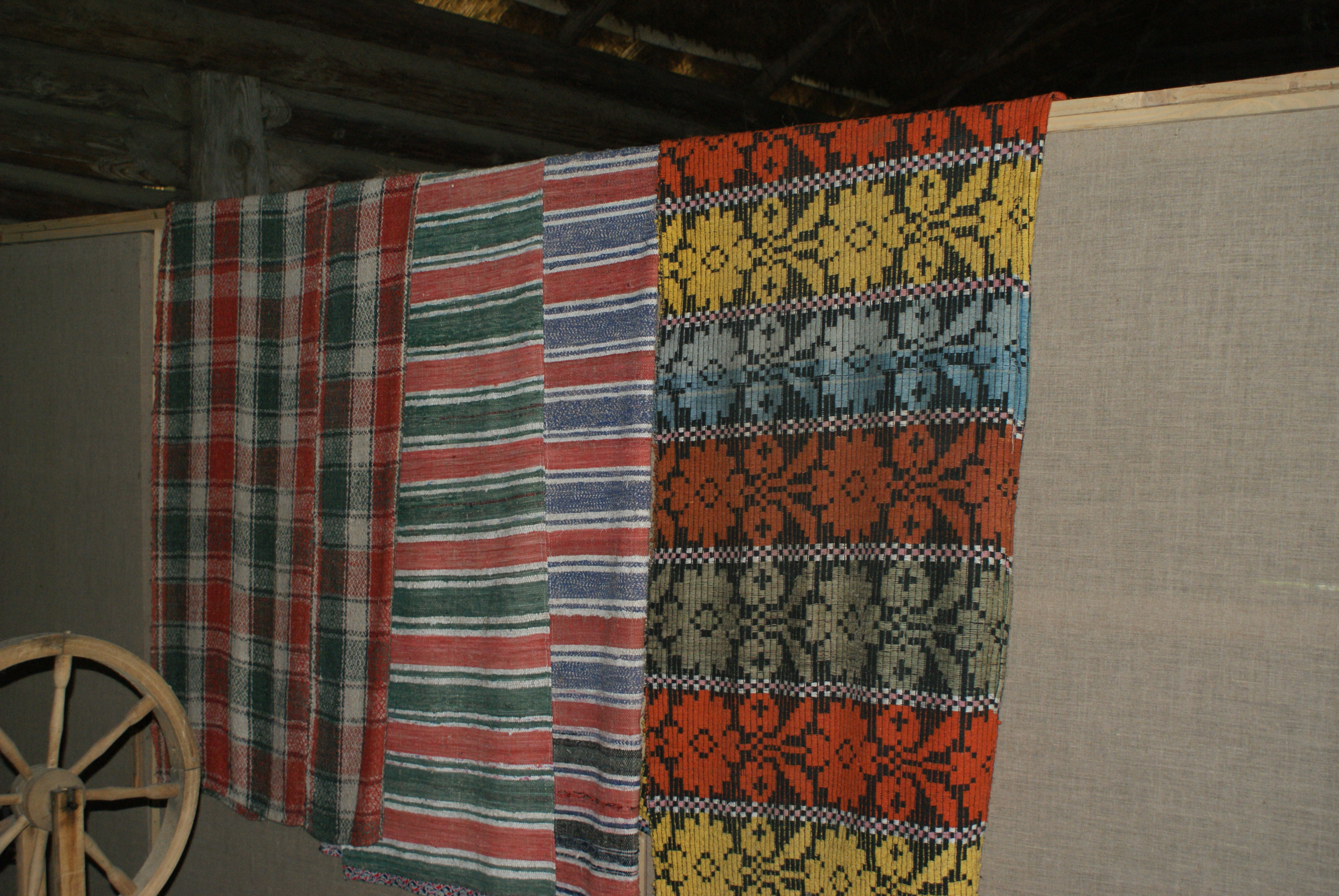 Woven fabrics in State museum of folk architecture and life, Belarus